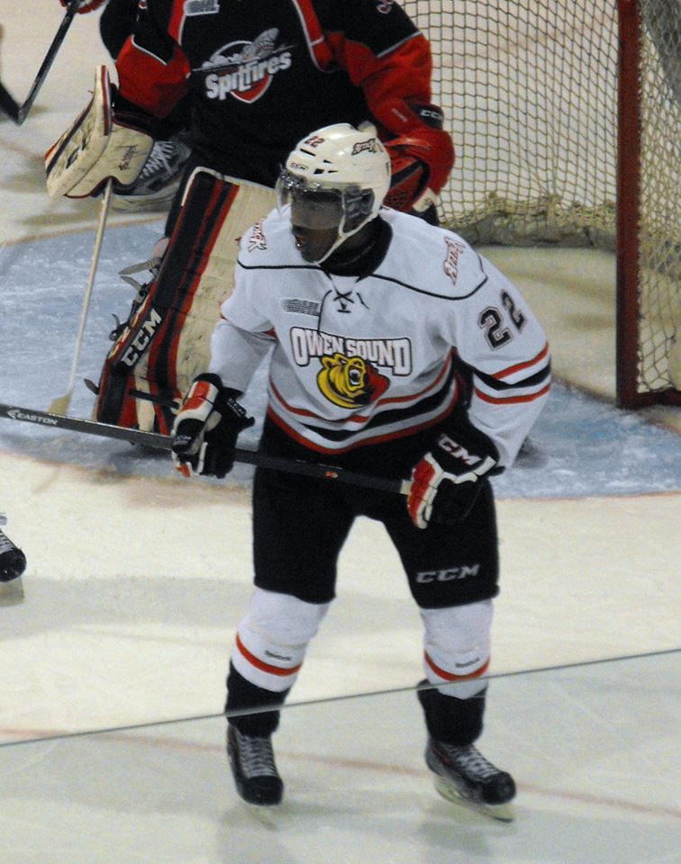 These pictures were taken by Devan Mighton in December 2013 in Owen Sound, ON, CA.